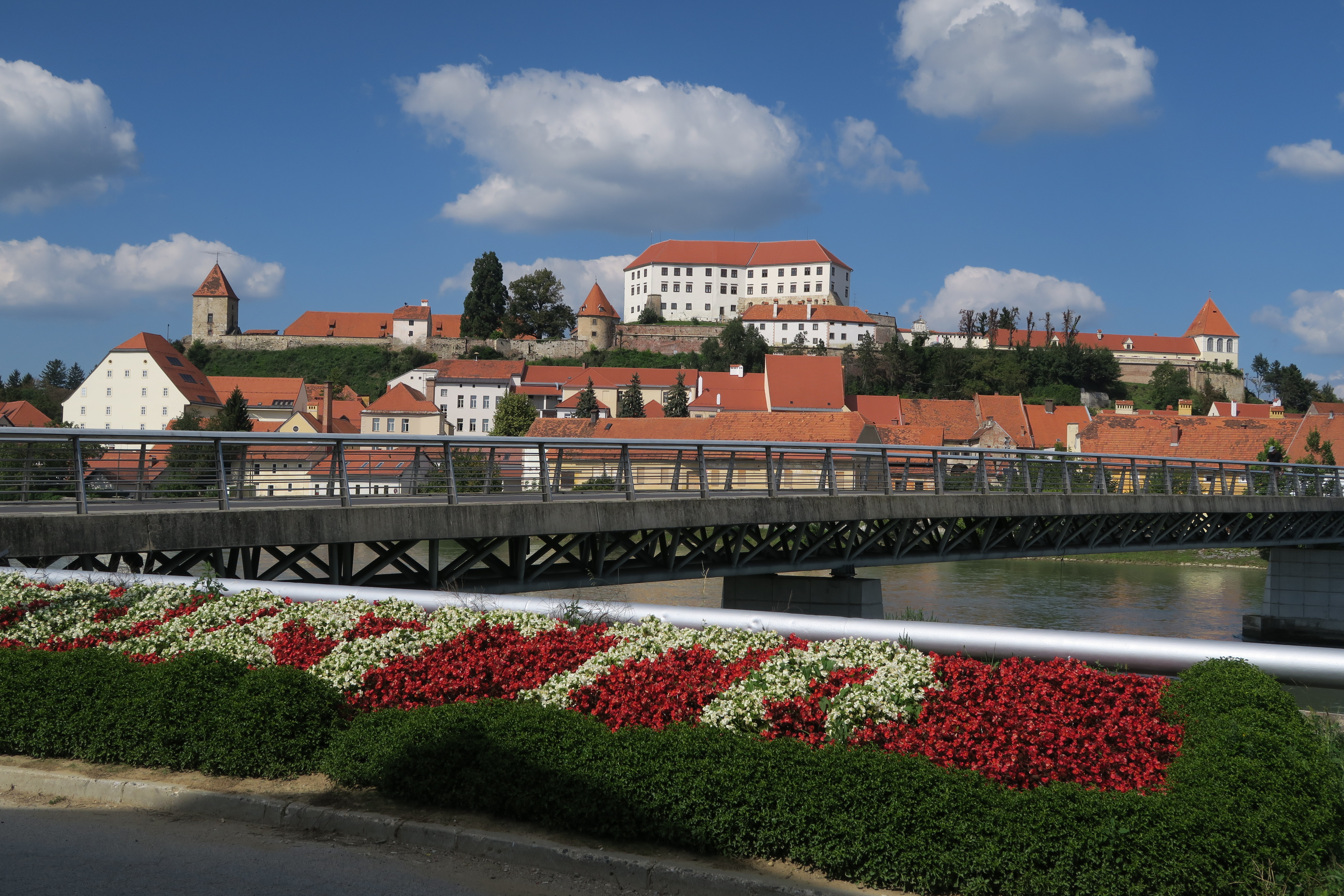 Ptuj Slovenia